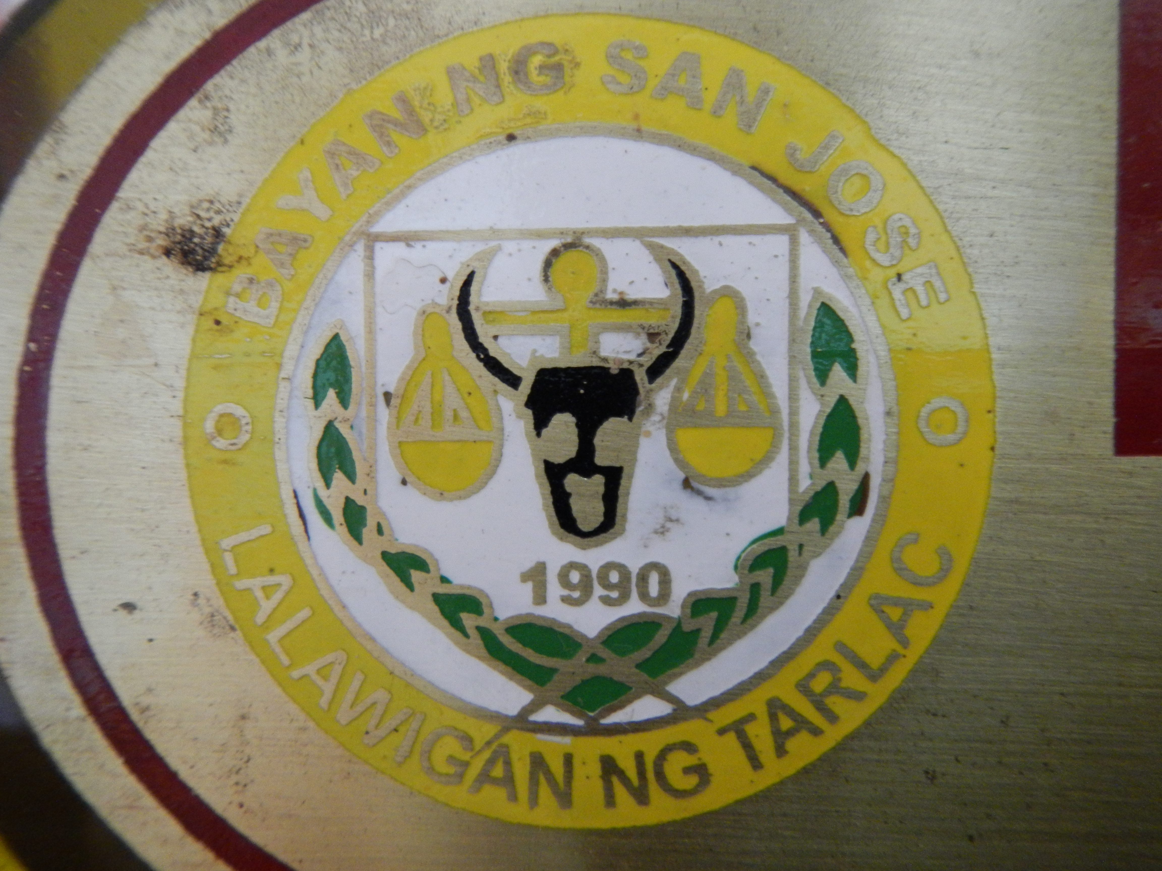 Original, raw/unedited and rarest photos of Town hall of San Jose, Tarlac [1] is a third-class municipality in the province of Tarlac,[2] Philippines. According to the 2010 census, it has a population of 33,960 people. It was created into a municipality pursuant to RA 6842; ratified on April 21, 1990; taken from the municipality of Tarlac City. San Jose is politically subdivided into 13 barangays. [3] Land Area: 397.30 km² ZIP Code: 2318 Coordinates: 15°25'46"N 120°21'15"E [4] [5] This place is situated in Tarlac, Region 3, Philippines, its geographical coordinates are 15° 29' 0" North, 120° 38' 0" East and its original name (with diacritics) is San Jose: Geographical location: Tarlac, Region 3, Philippines, Asia.[6] Monasterio de Tarlac May 7, 2013 Tarlac mayoralty candidate Rudy Abella shot dead ---------[N.B. May 27, Monday, 2013 Photography of Rosario, San Jose, Tarlac [7] : 30% cloudy and 70% sunny weather using my Nikon AW 100 waterproof shockproof camera. From Bulacan at 10:05 a.m., I took photo at 12:52 pm of Tarlac City and reached TRP (Tarlac Recreational Park) of San Juan de Valdez, San Jose, Tarlac at 2:29 p.m. and finished photography of the town's landmarks at 4:18 pm then took photos of Tarlac Cathedral and Cory Aquino Monument at 5:31 p.m., and arrived at Bulacan at 9:10 pm after 4+ hours of travel by bus, and started uploading via slow internet at 9:40 pm - I hereby certify that these raw, original and unedited photos are exclusive for Commons and Wikipedia never uploaded in any Internet or any site, and for the public domain without any condition.]